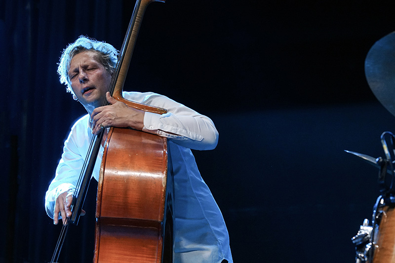 Anders Christensen at Aarhus Jazz Festival 2017 with Spacelab (Nikolaj Hess (p), AC (B), Mikkel hess (d))